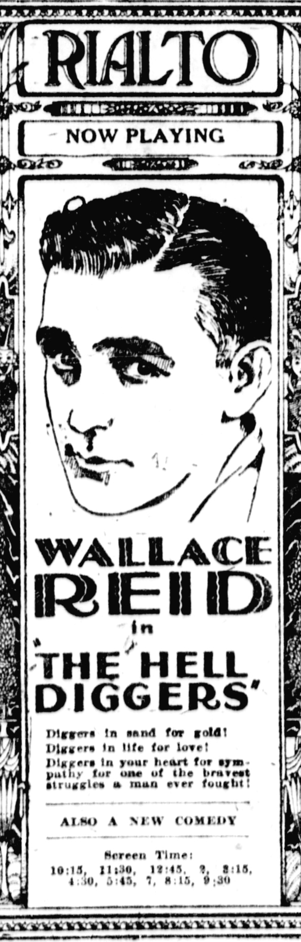 The Hell Diggers is a 1921 silent film drama produced by Famous Players-Lasky and distributed through Paramount Pictures. This is a newspaper advertisement for the film.